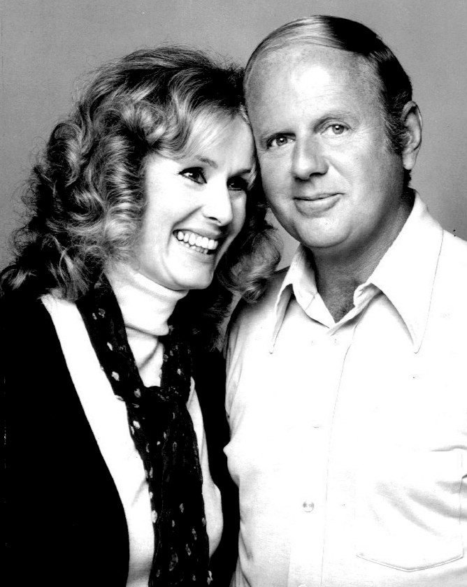 Photo of Diana Hyland and Dick Van Patten as the Bradford parents from the television program Eight Is Enough. Hyland died shortly after the program went on the air; Tom Bradford was written into the script as a widower until his remarriage later in the series.